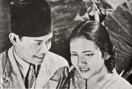 Indonesian actors Rd Mochtar and Roekiah